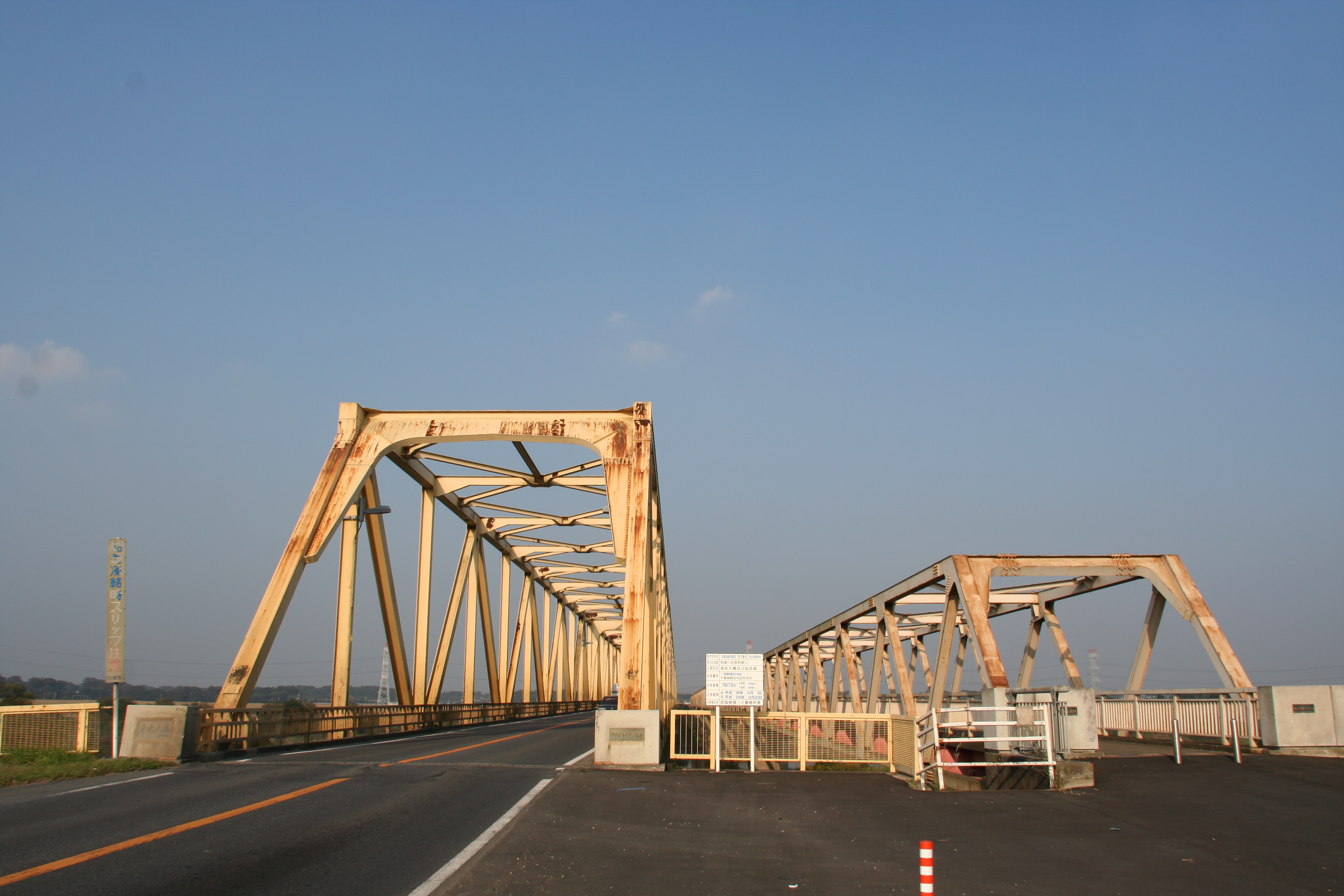 Mefuki Ohashi (Mefuki Bridge). Left bridge for vehicles, right bridge for pedestrians